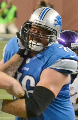 Game action during the football game between the Detroit Lions and Minnesota Vikings at Ford Field